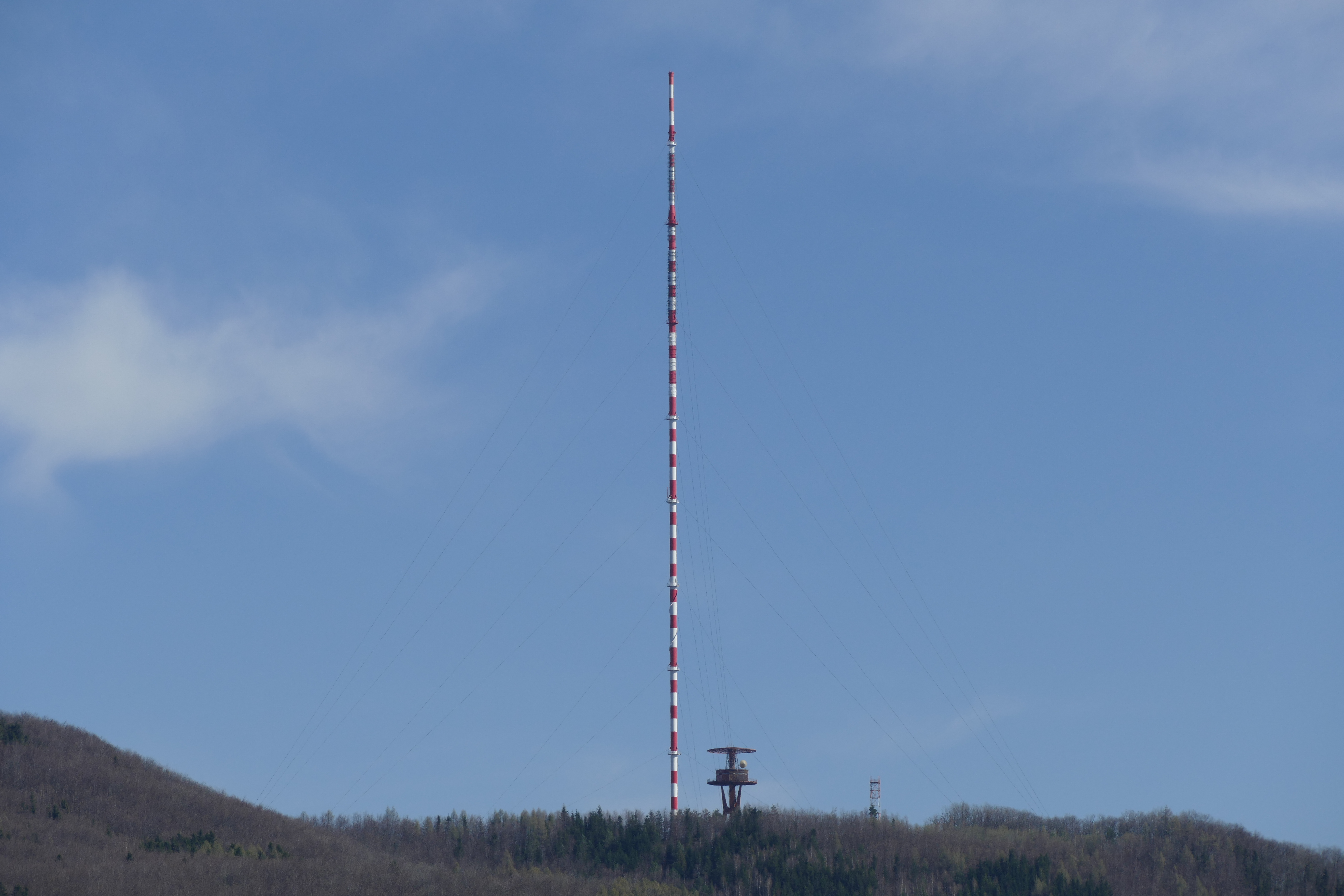 Transmitter Dubník (Slanské vrchy) with its height of 318 meters, it is the highest building in Slovakia